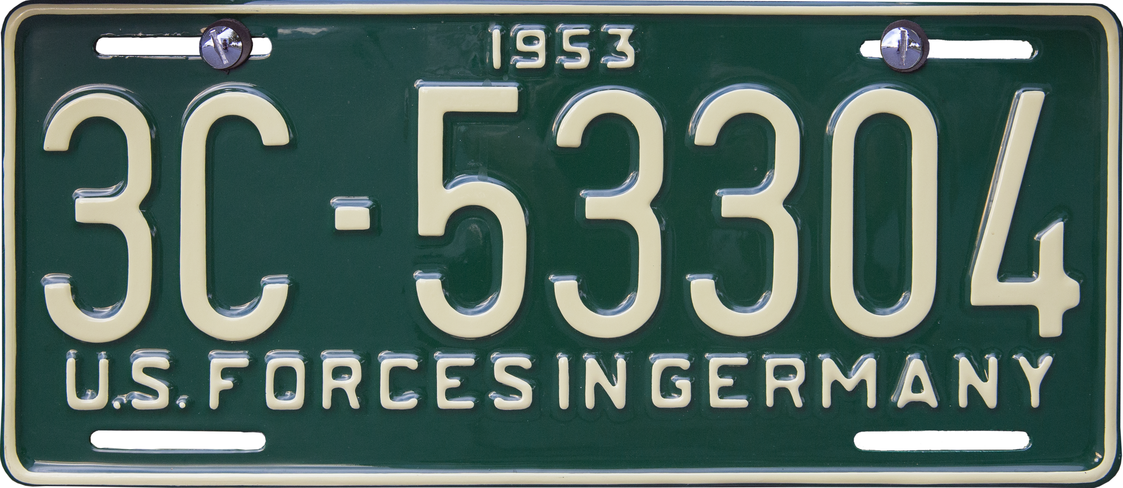 The US Armed Forces (Germany) license plate on a 1953 Jaguar XK120, offered for sale at Hershey 2019.